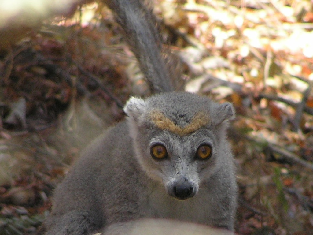 Female Crowned Lemur